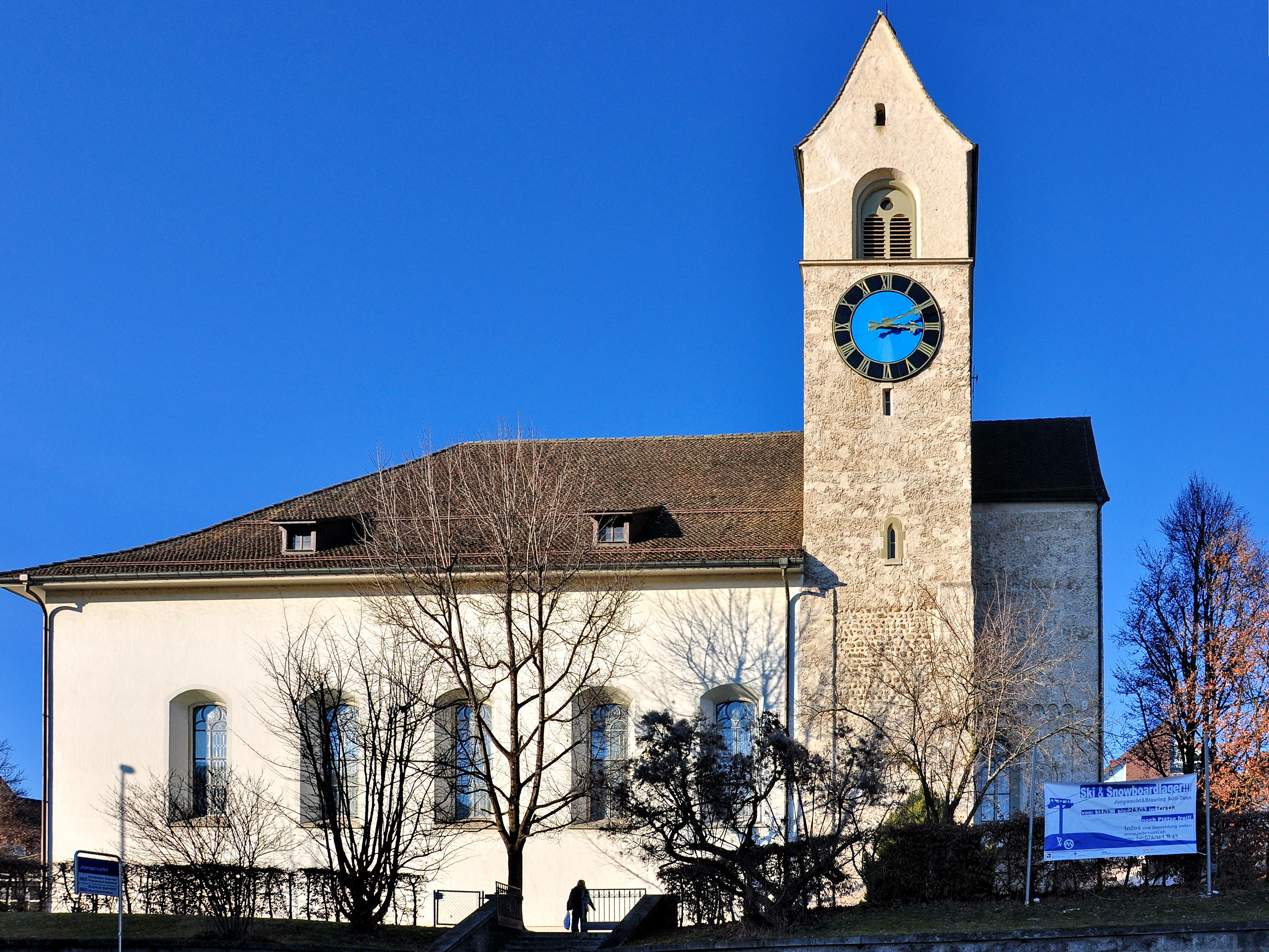 Rüti (Switzerland) : Former Rüti Abbey, as of today the protestant church, as seen from the southeasternly Dorfstrasse.